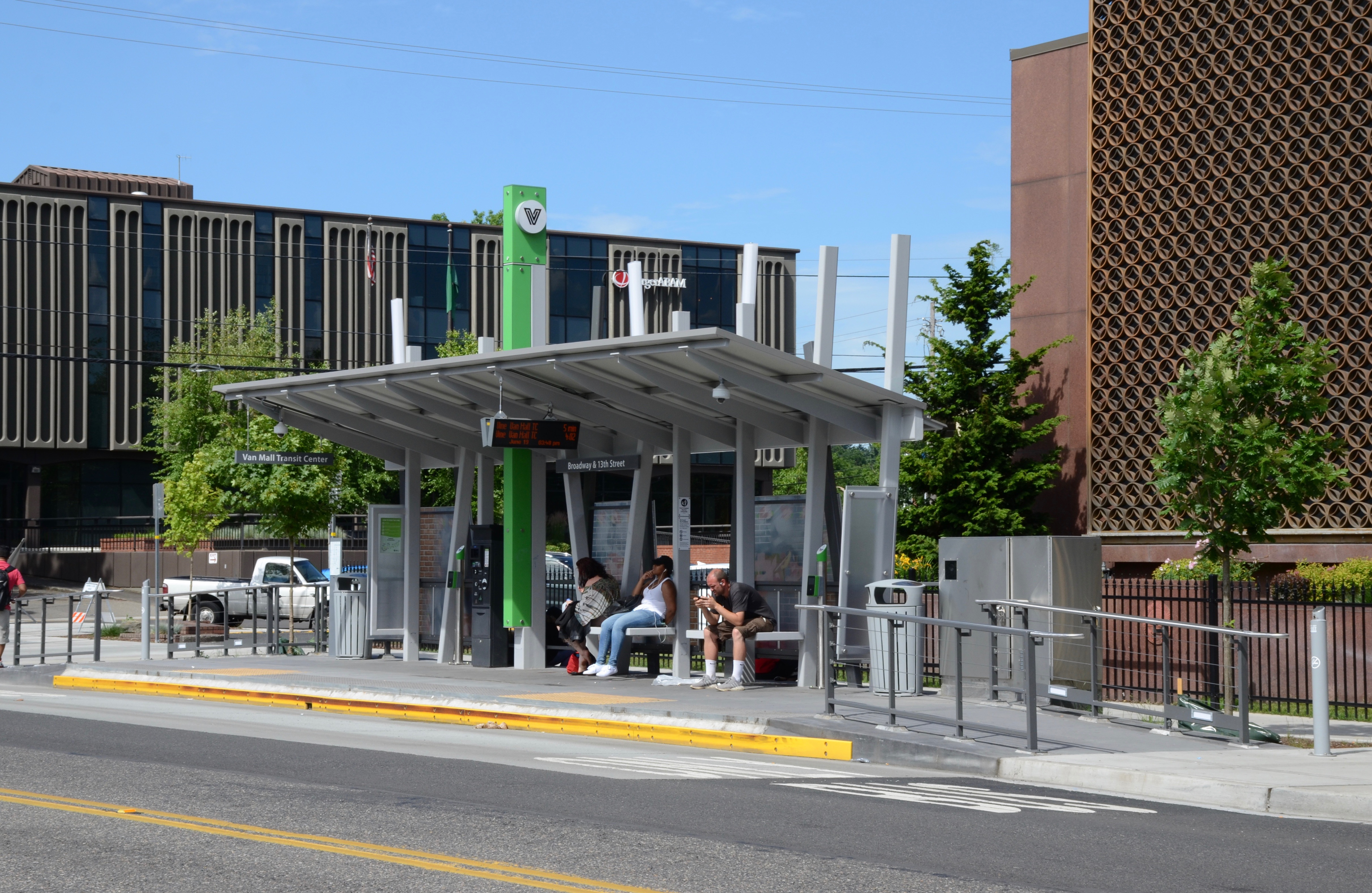 The Broadway & 13th station (on Broadway) of C-Tran's "The Vine" service.